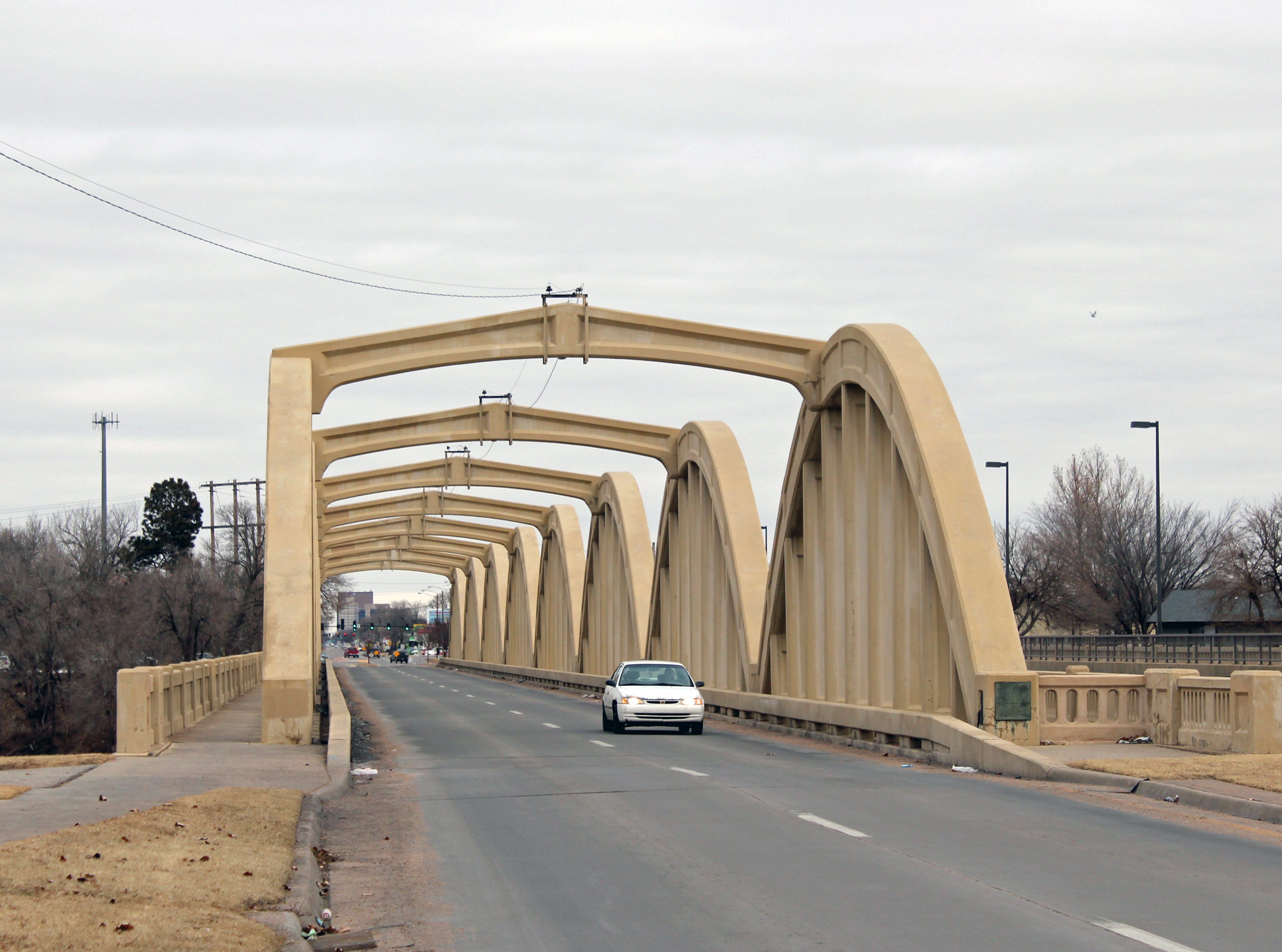 The John Mack Bridge, located on South Broadway in Wichita Kansas. This rainbow arch bridge was built in 1931 and is listed on the National Register of Historic Places. It goes over the Arkansas River.